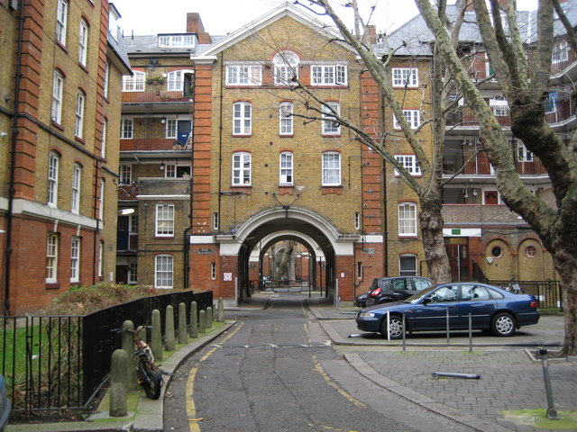 Holborn: The Bourne Estate, EC1 This is the London County Council housing estate built between 1905 and 1909. Ahead are the Nigel Buildings (close-up in 667886), to the left are Kirkeby Buildings, and to the right are Laney Buildings with a frontage on the other side on Leather Lane. A burnt out motor scooter resting against the concrete bollards detracts from the view.